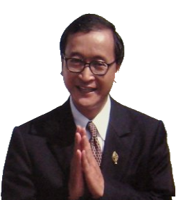 Sam Rainsy Party campaign bus during the Cambodian parliamentary election, 2008.